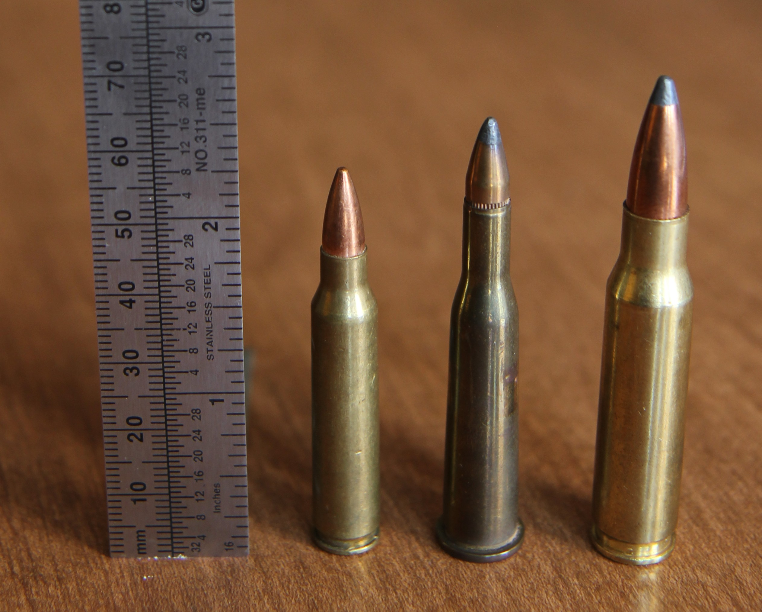 A .22 Savage Hi-Power cartridge next to a metric/imperial ruler with .223 Remington and .308 Winchester cartridges for comparison.